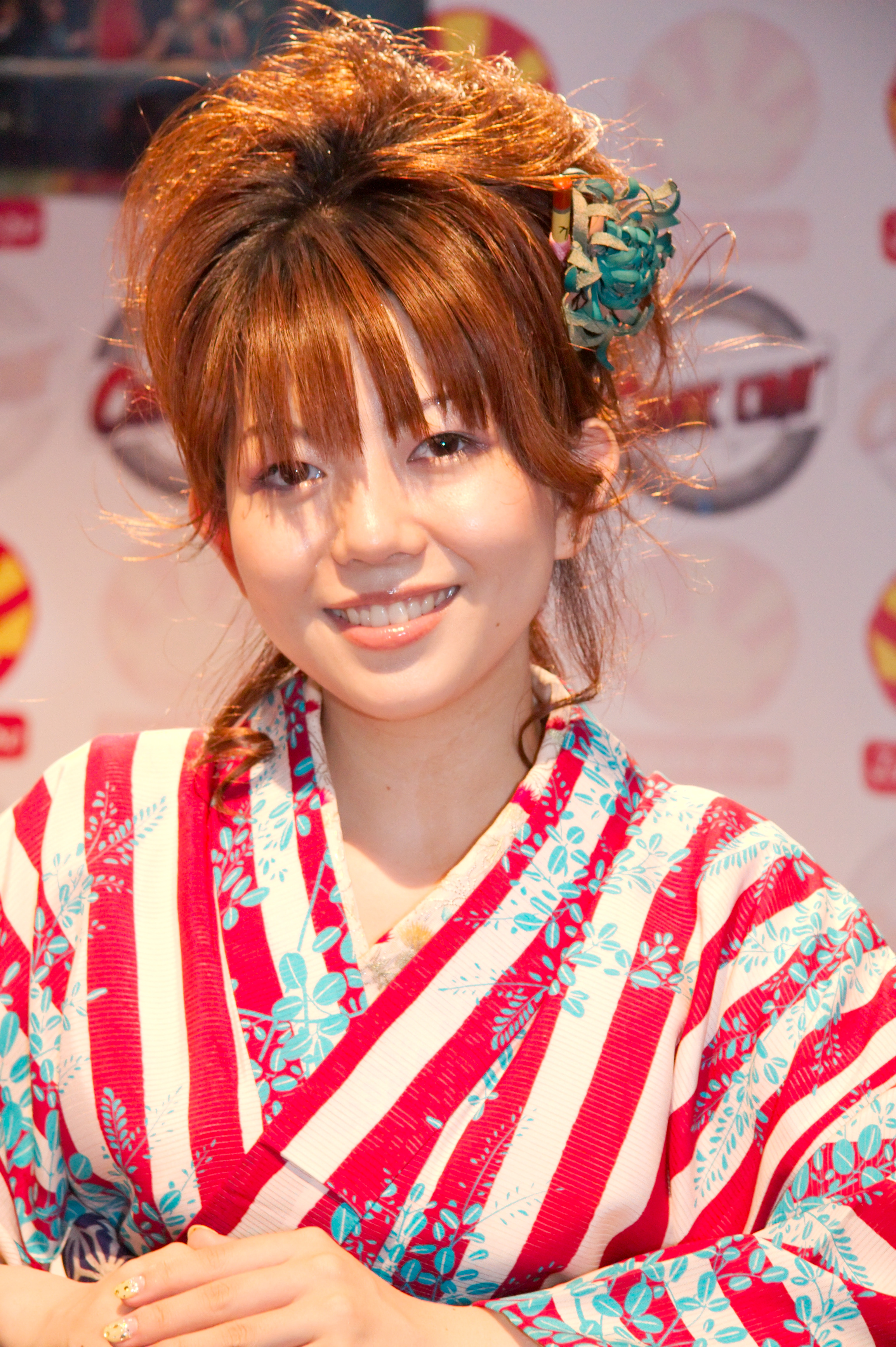 Autograph session with Yui Makino at Japan Expo 2009 (Paris, France).